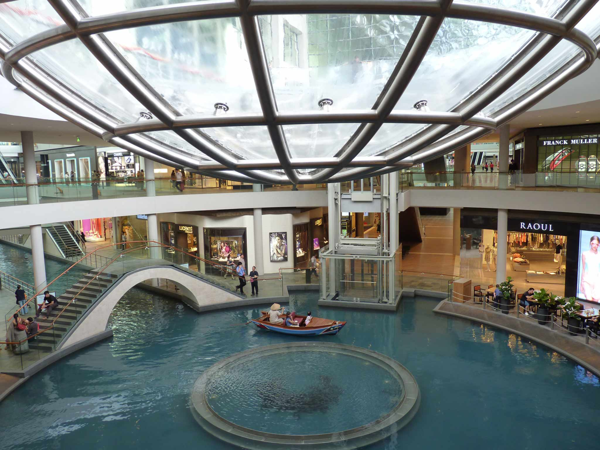 The Shoppes at Marina Bay Sands, Singapore.